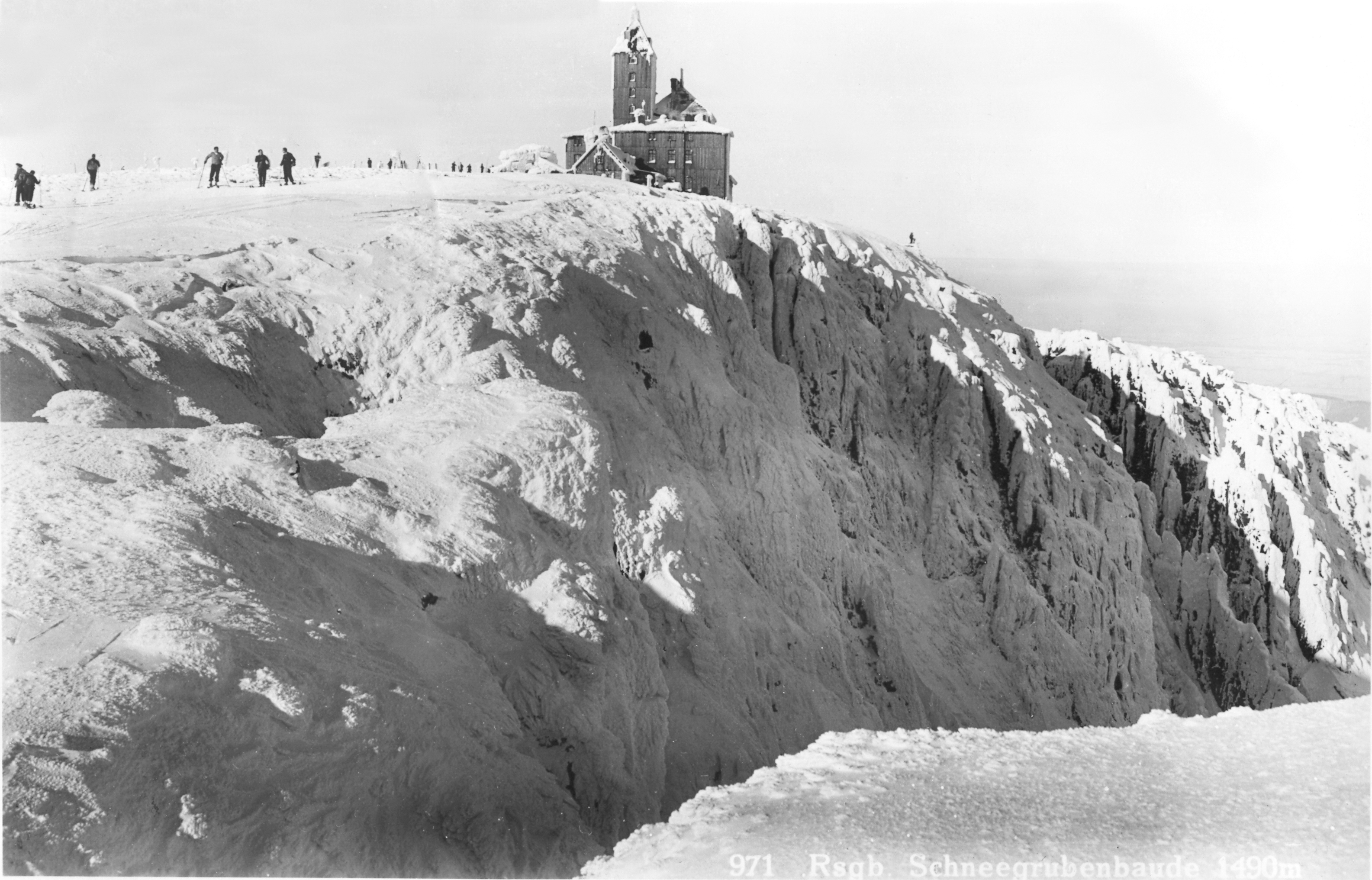 Sniezne Kotly (germ. Schneegruben), Karkonosze Mountains, Germany now Poland.